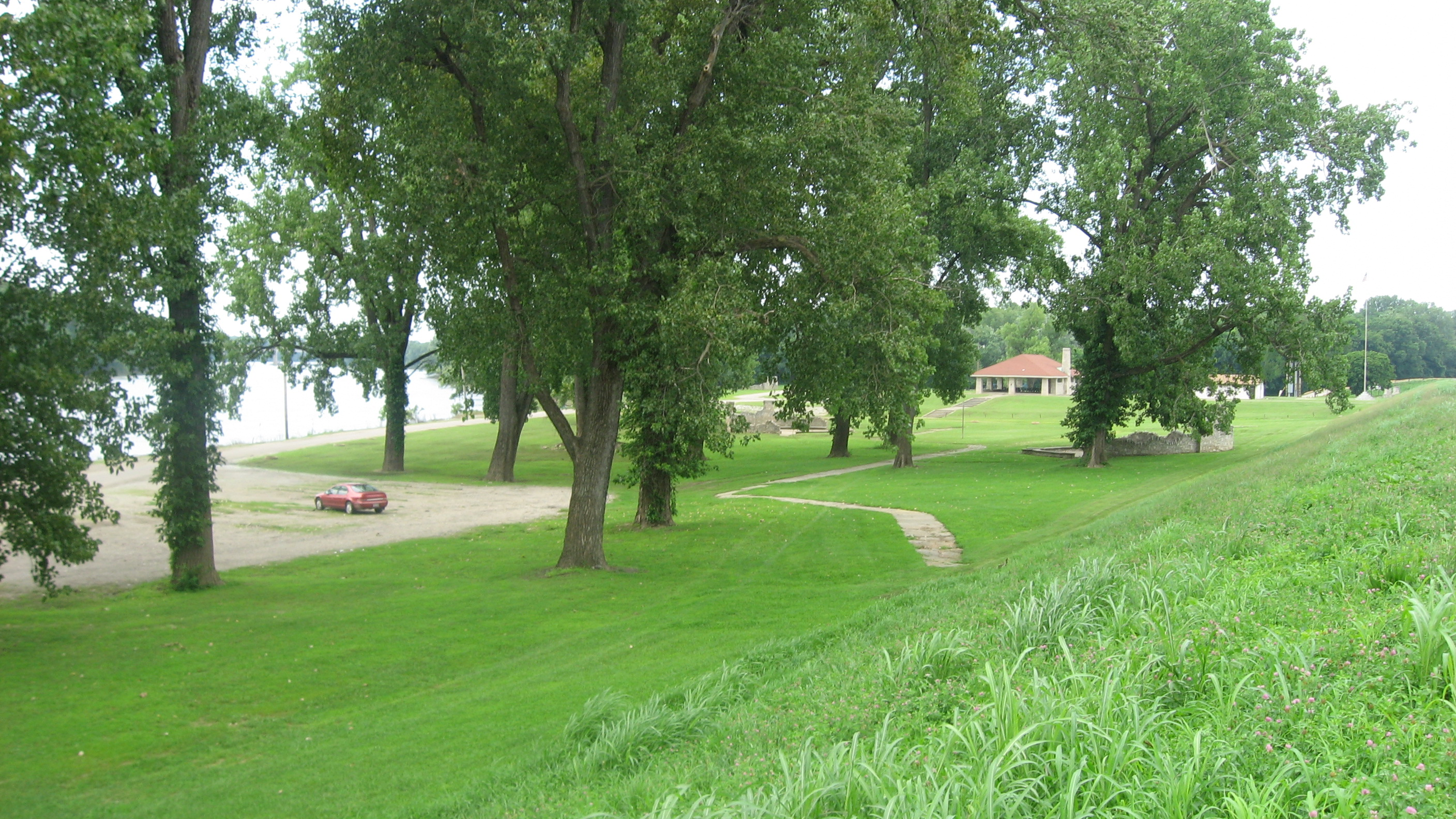 Overview from the southern end of Kimmell Park, located along the Wabash River in Vincennes, Indiana, United States. Created in 1938, the park is listed on the National Register of Historic Places.